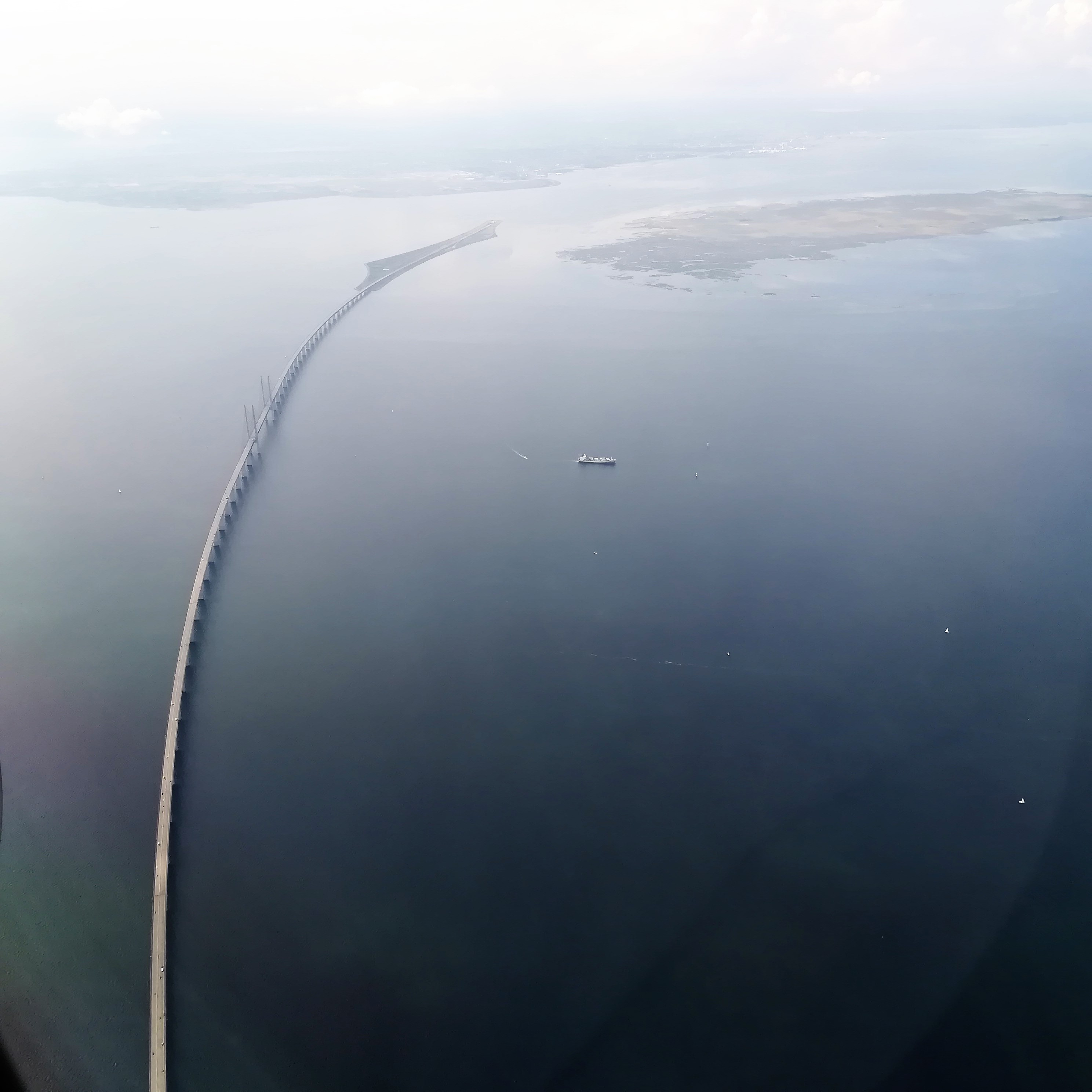 Öresund bridge, up Danmark, down Sweden